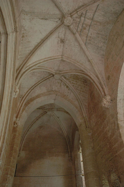 Valmagne abbey. France